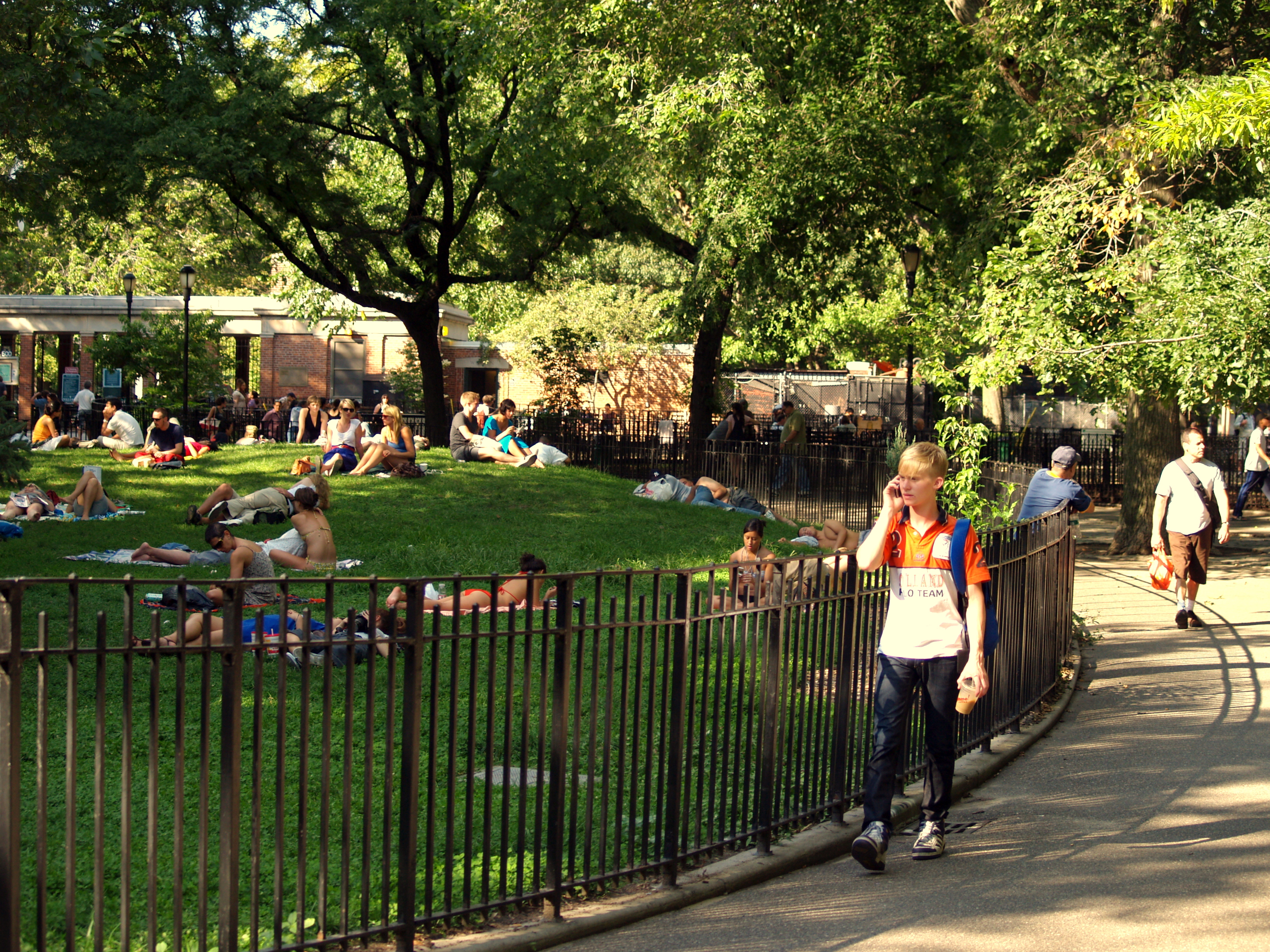 The central knoll at Tompkins Square Park in New York City where people sunbathe and relax.